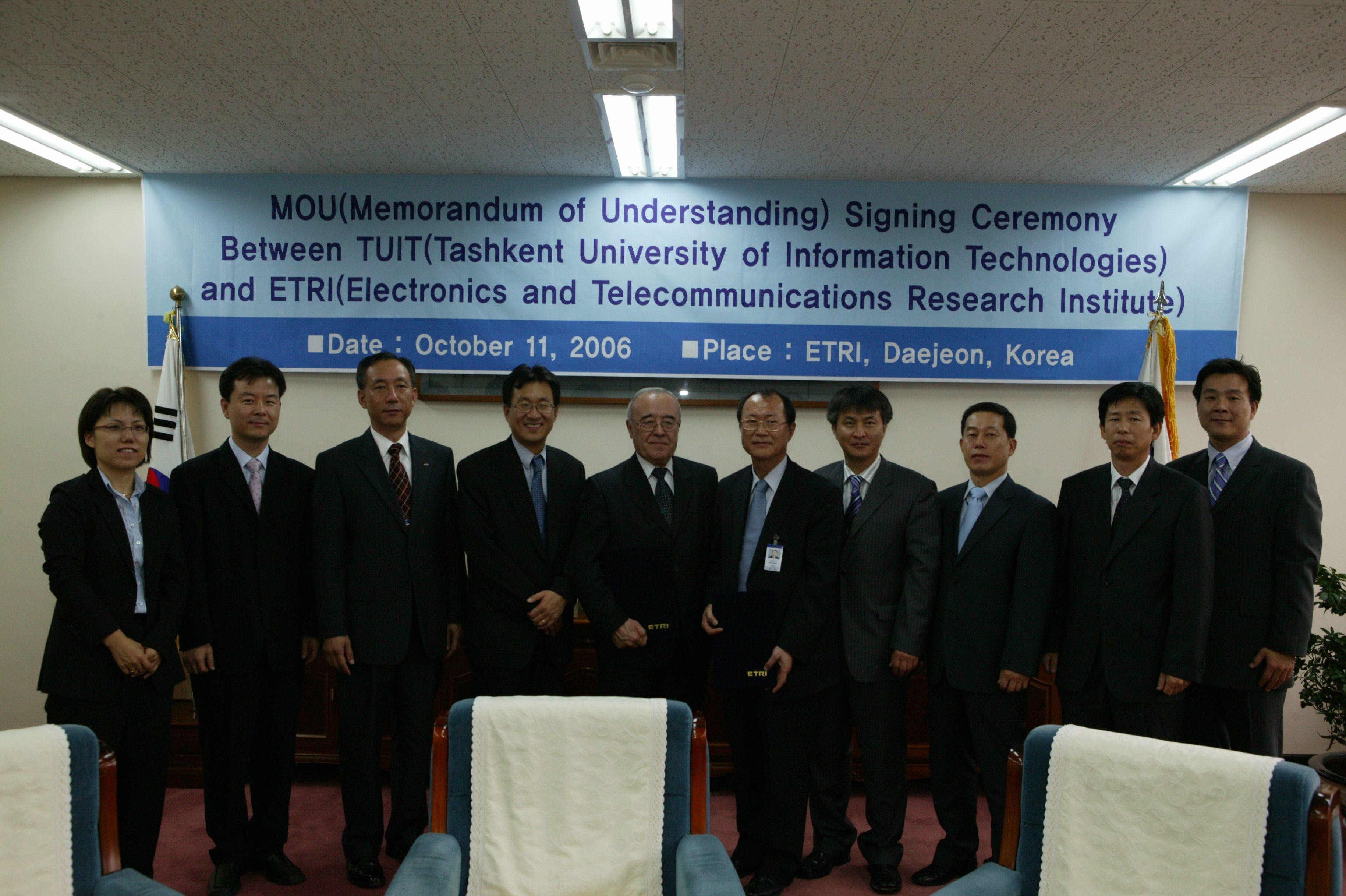 UIT&ETRI, Daejeon, Korea